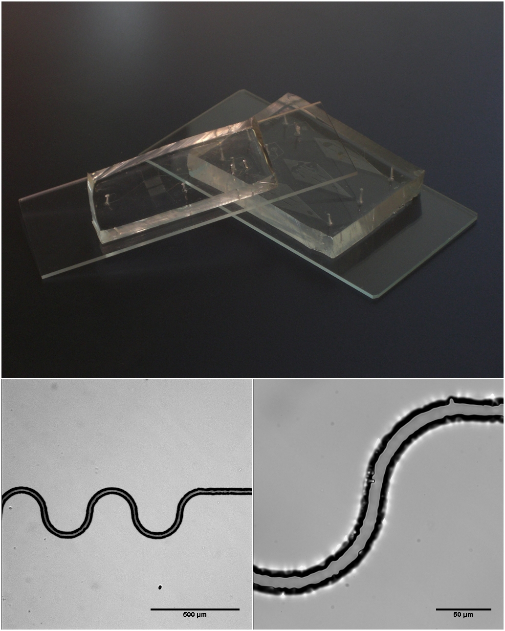 Microfluidic devices, including micrographs of one of the channels.